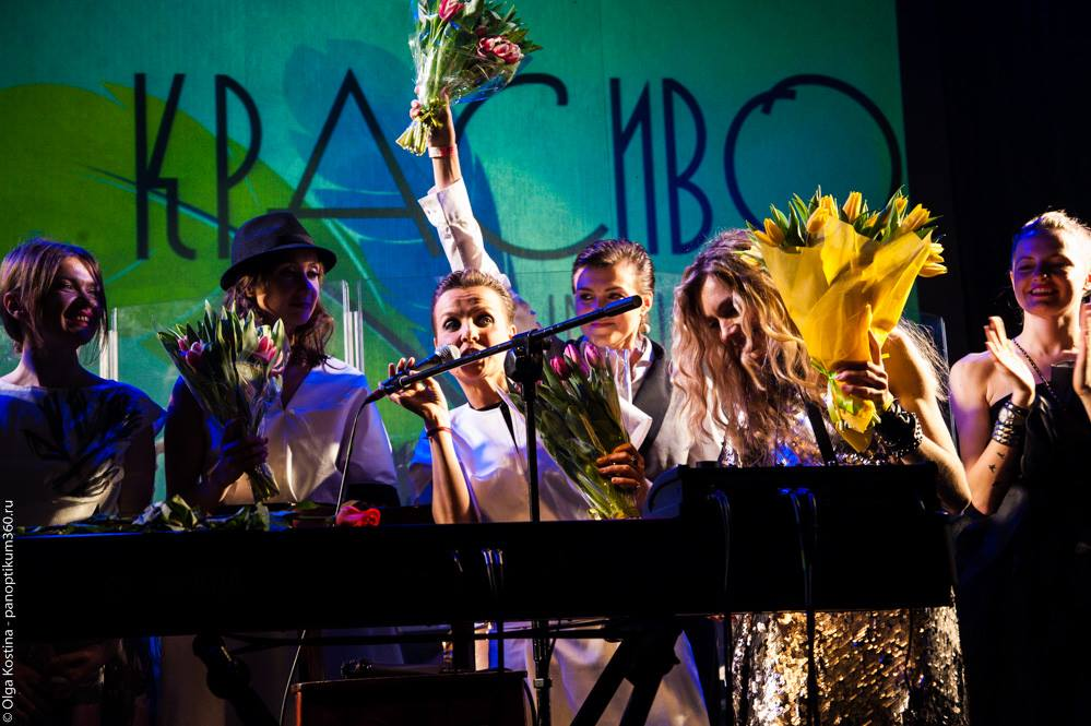 Festival "KRASIVO"